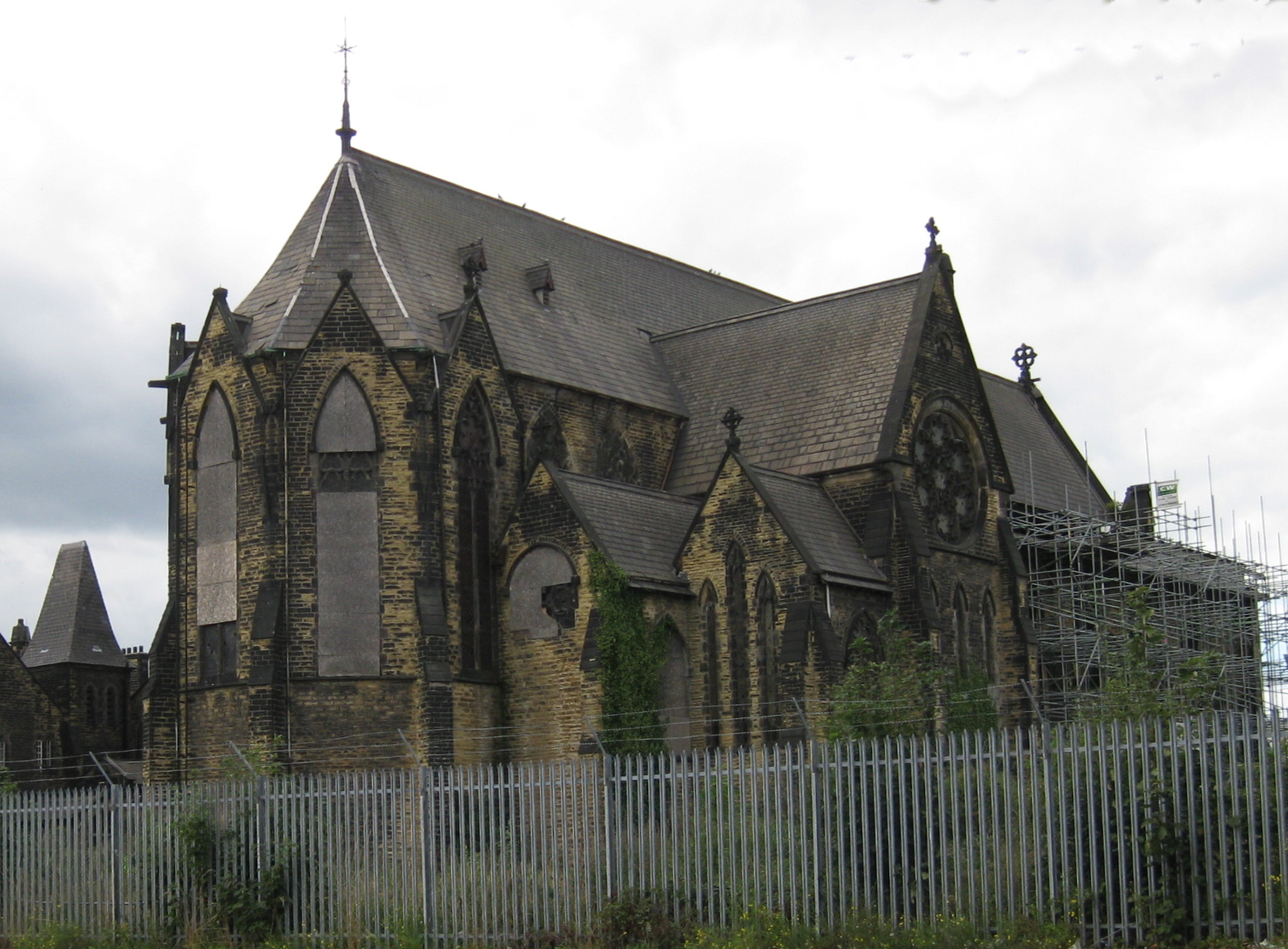 Mount St Mary's Church, Richmond Hill, Leeds. 1853. Roman Catholic. No longer in use.